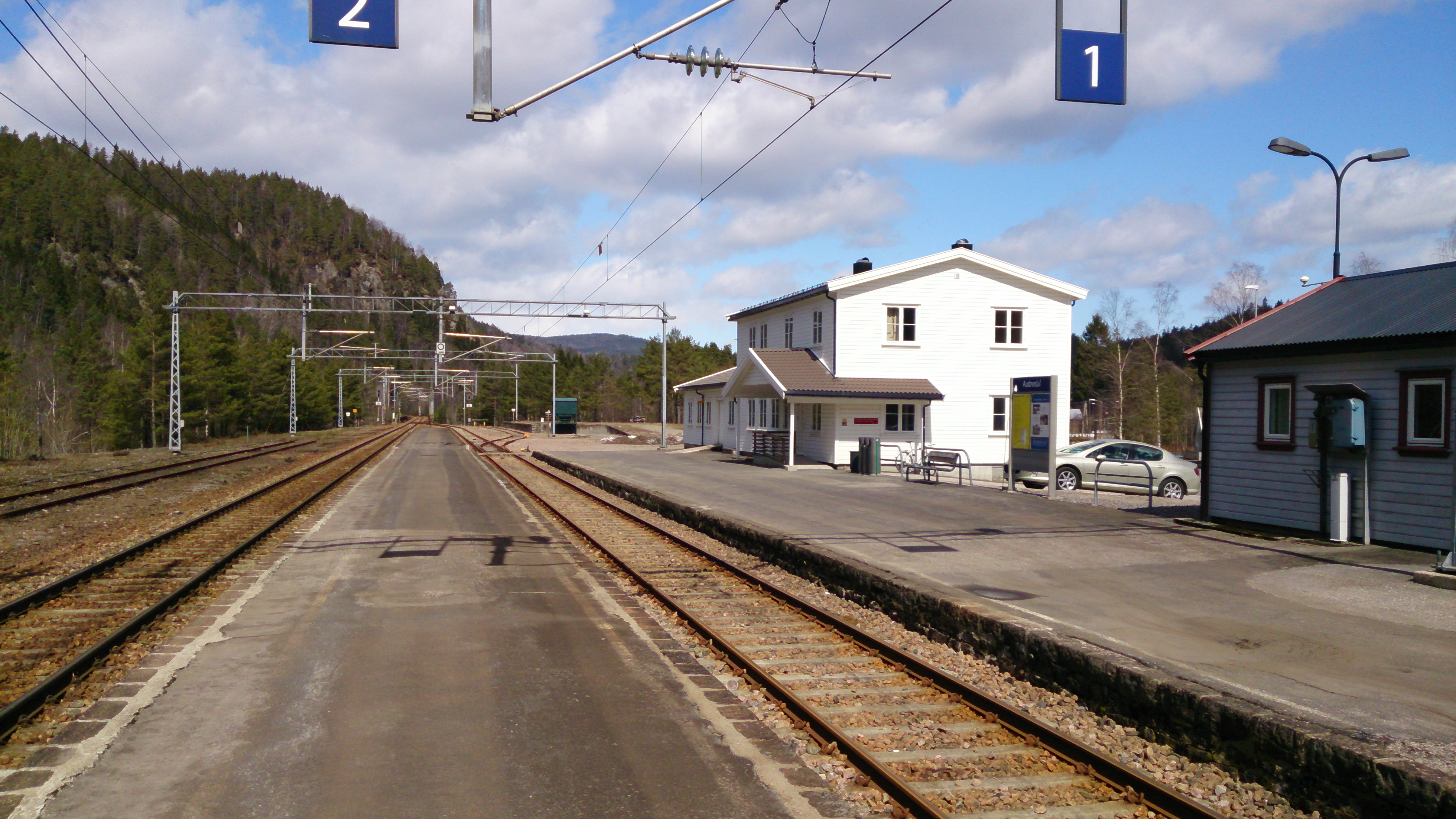 Audnedal train station on Sørlandsbanen, Norway